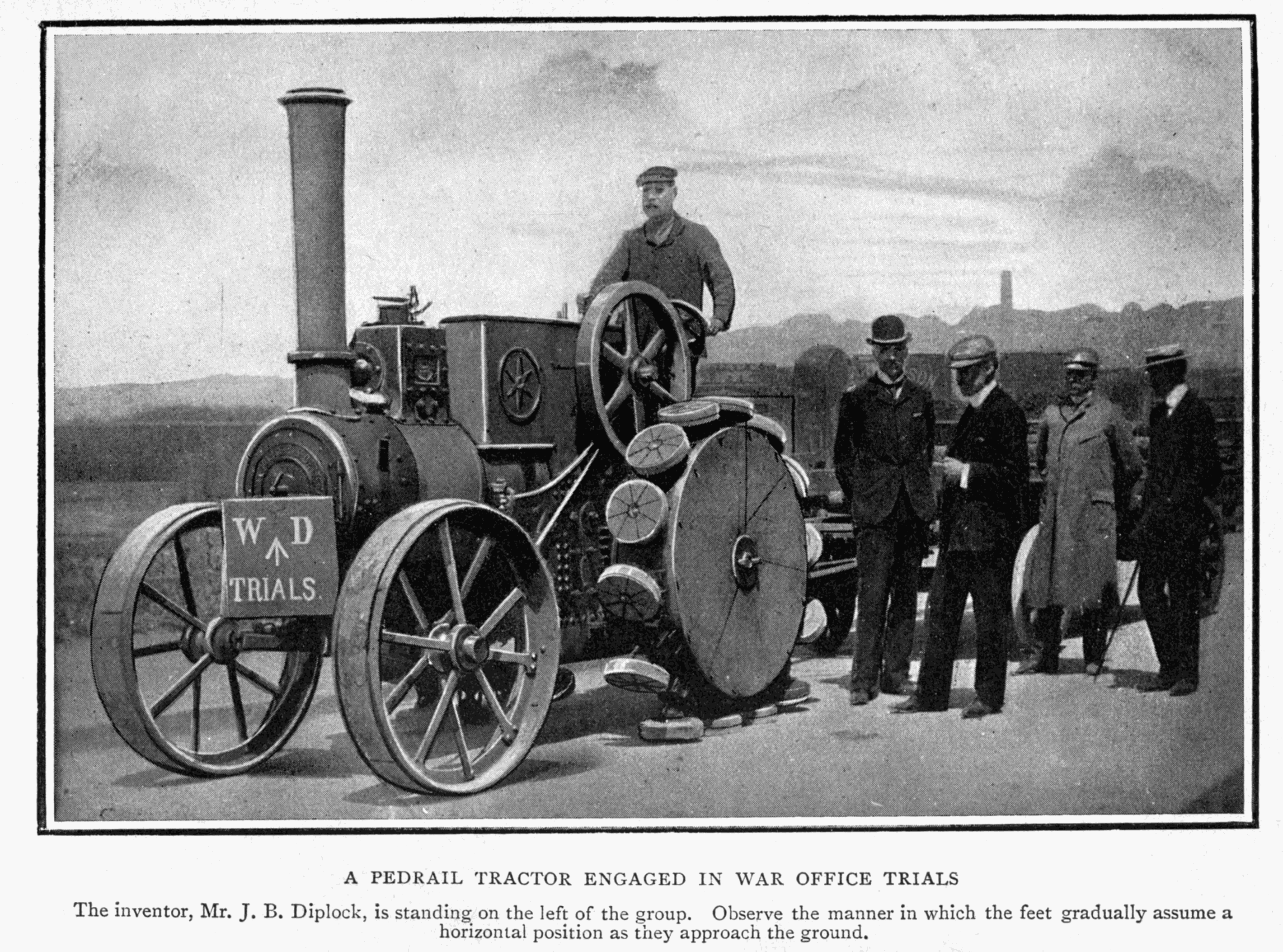 Illustration from the book given under "Source"